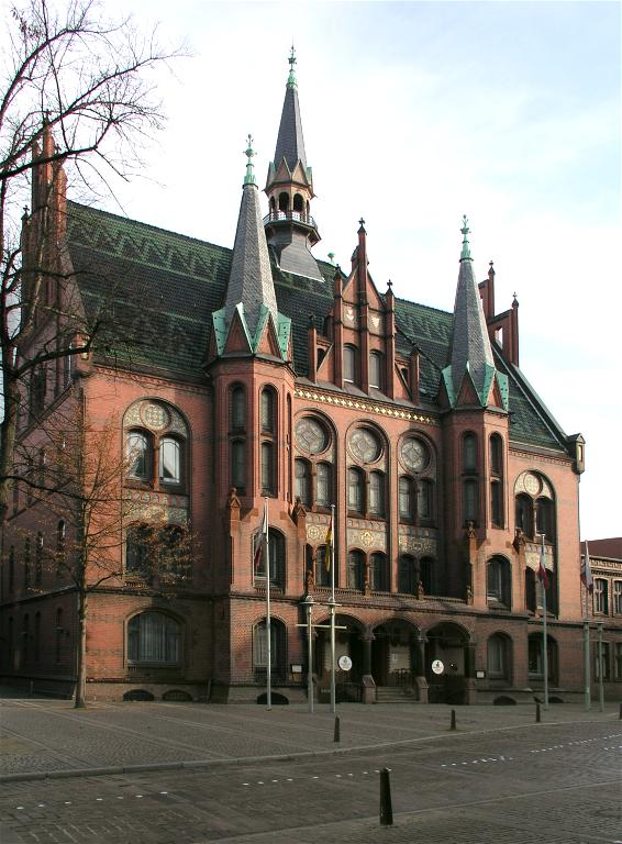 Neumünster (Schleswig-Holstein, Germany),town hall , photo 2009